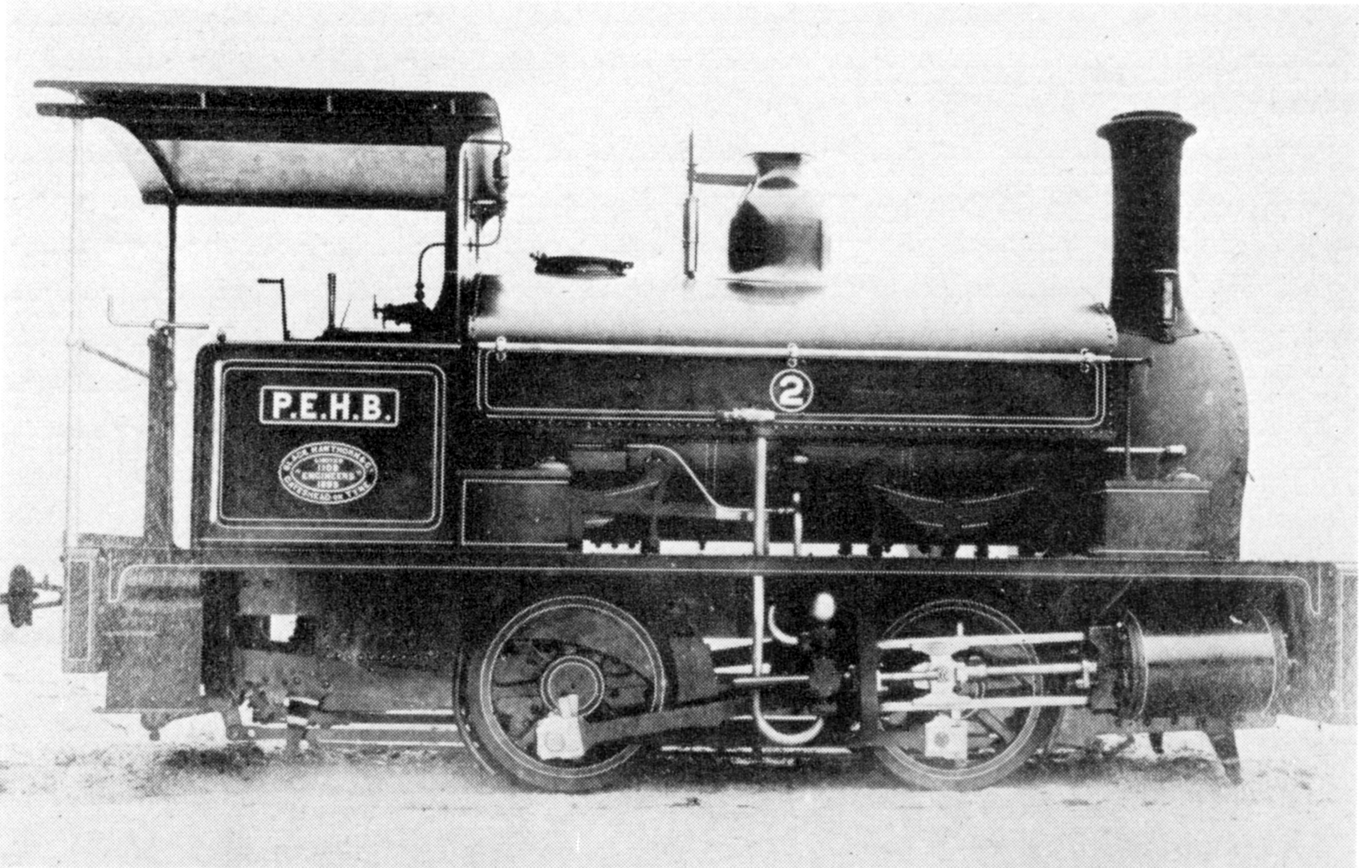 Cape Government Railways 0-4-0ST no. 1016 of 1894, ex Harbour Board Port Elizabeth no. 2